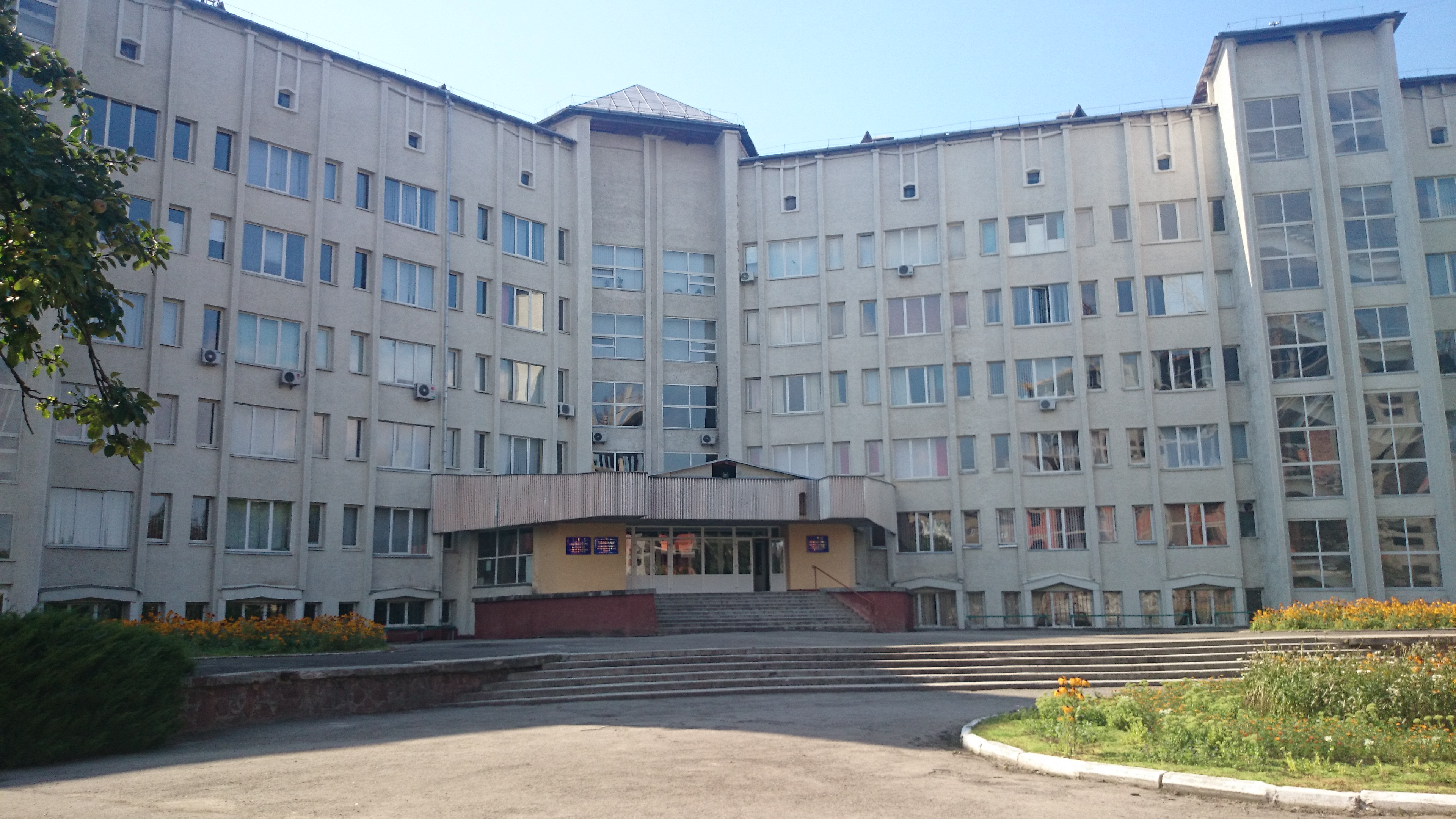 Faculty of Automation and Electrification IFNTUNG